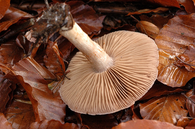 Cortinarius anomalus from Commanster, Belgium. If you think this is a different taxon, please contact James Lindsey.